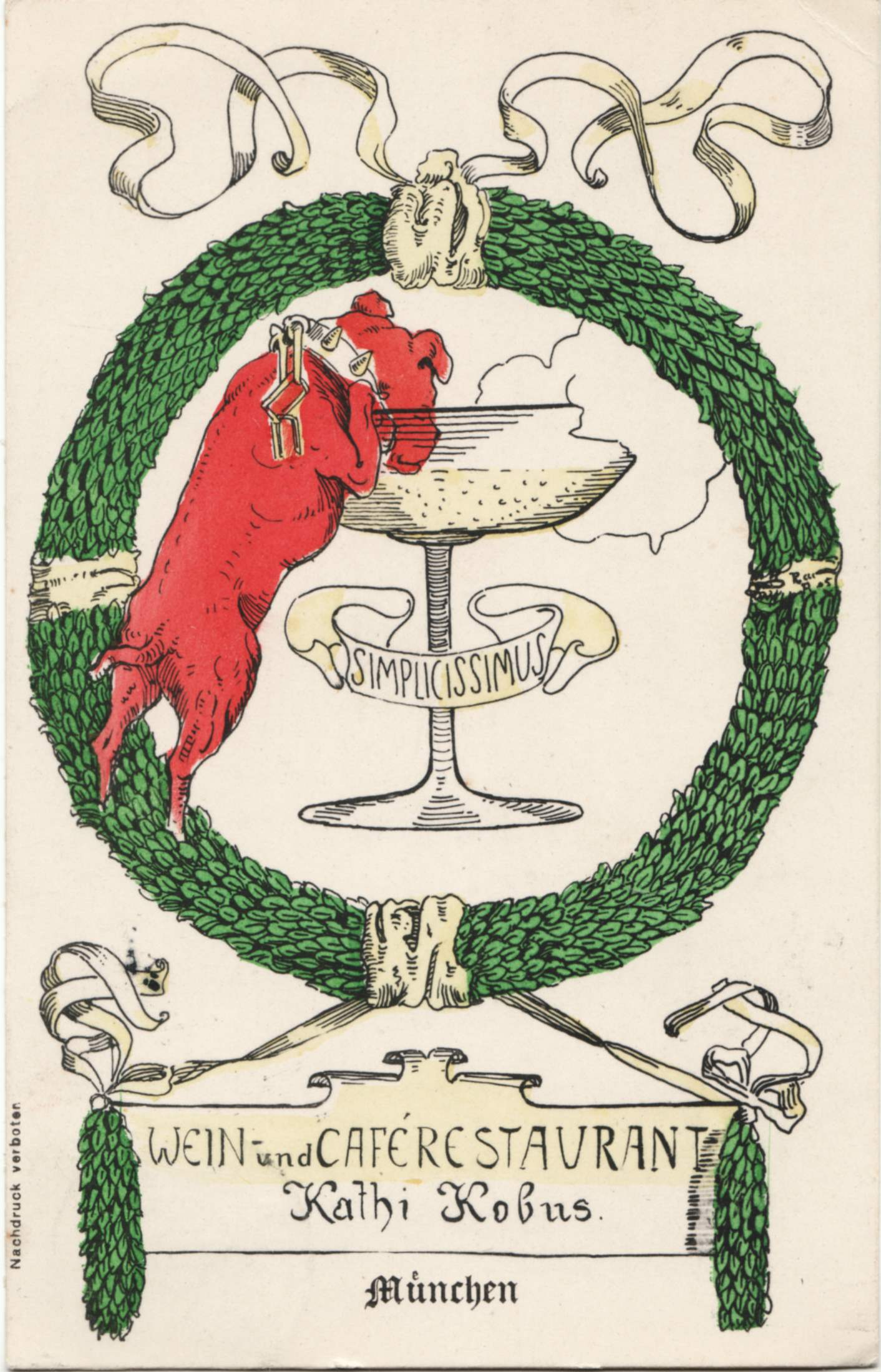 Postcard of Simplicissimus Munich